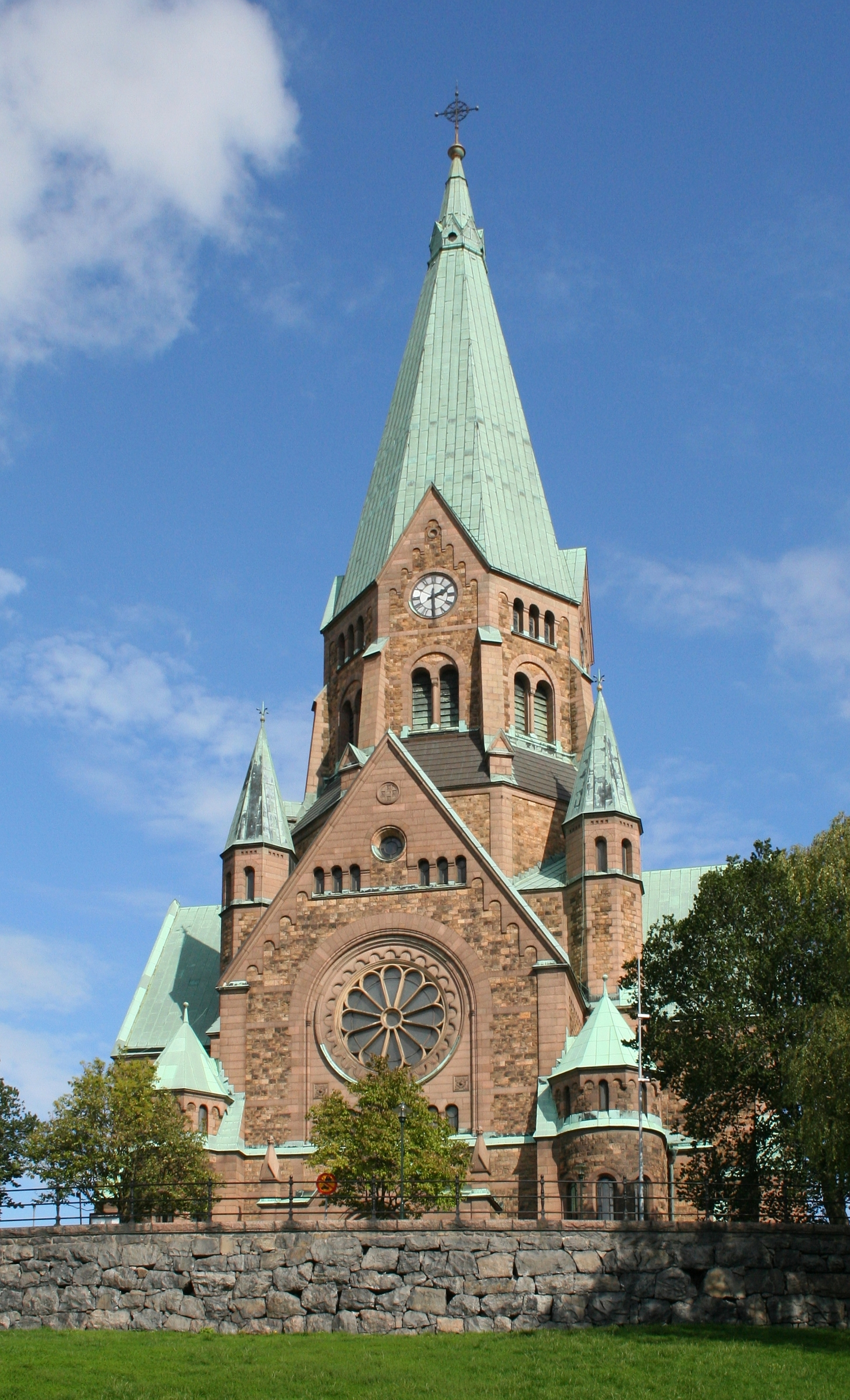 Sofia Church in Stockholm